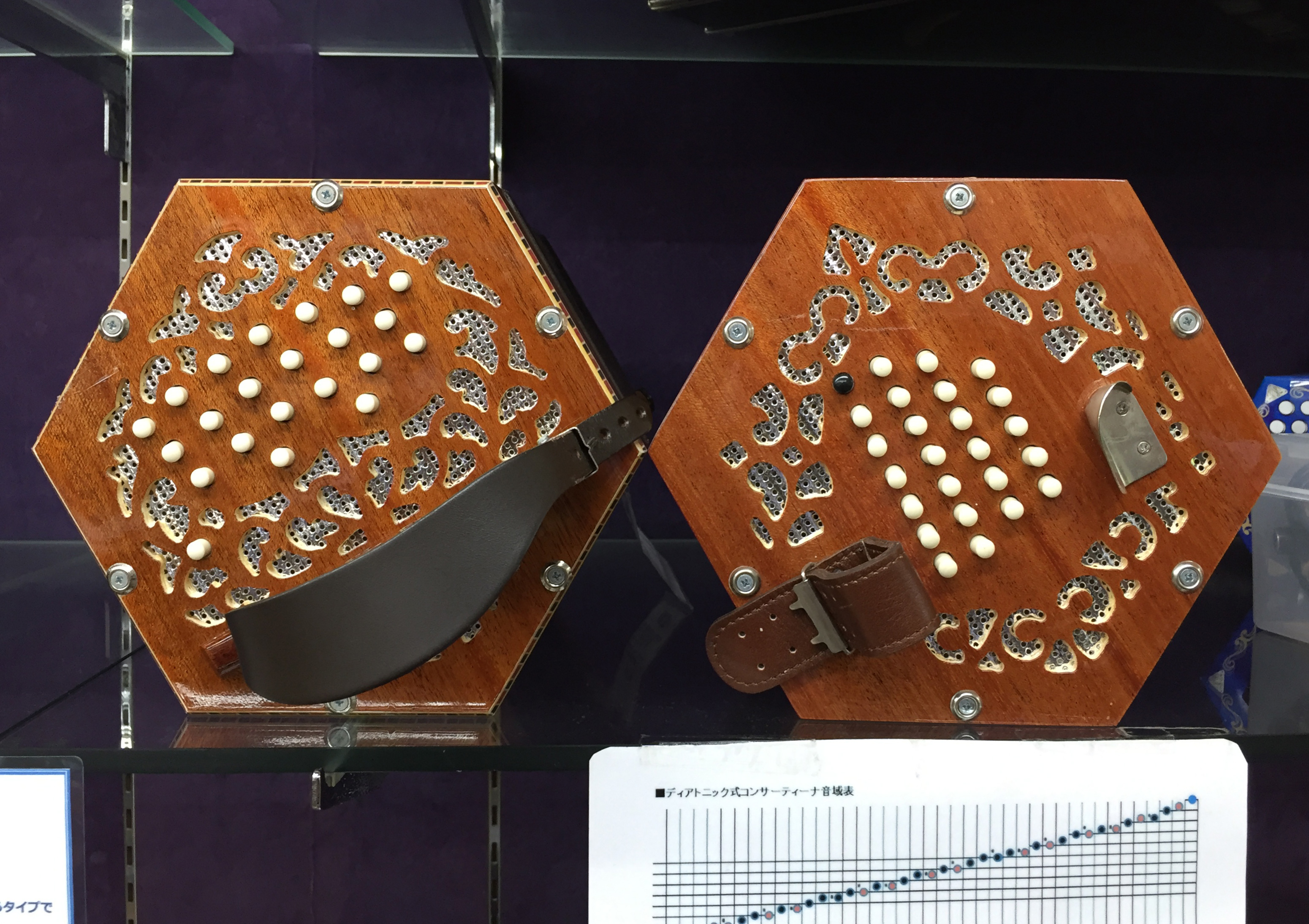 40-button Anglo concertina and 48-button English concertina. I took this photo at TANIGUCHI GAKKI or TANIGUCHI's Musical Instrument Shop in Tokyo on 15th October 2018.